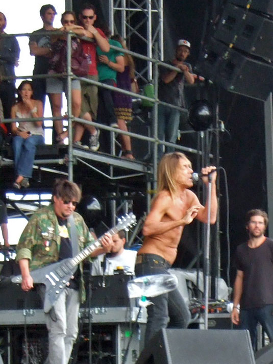 Guitarrist Ron Asheton and vocalist Iggy Pop from the band Stooges. Virgin Mobile Festival, Day 2, August 10th, 2008